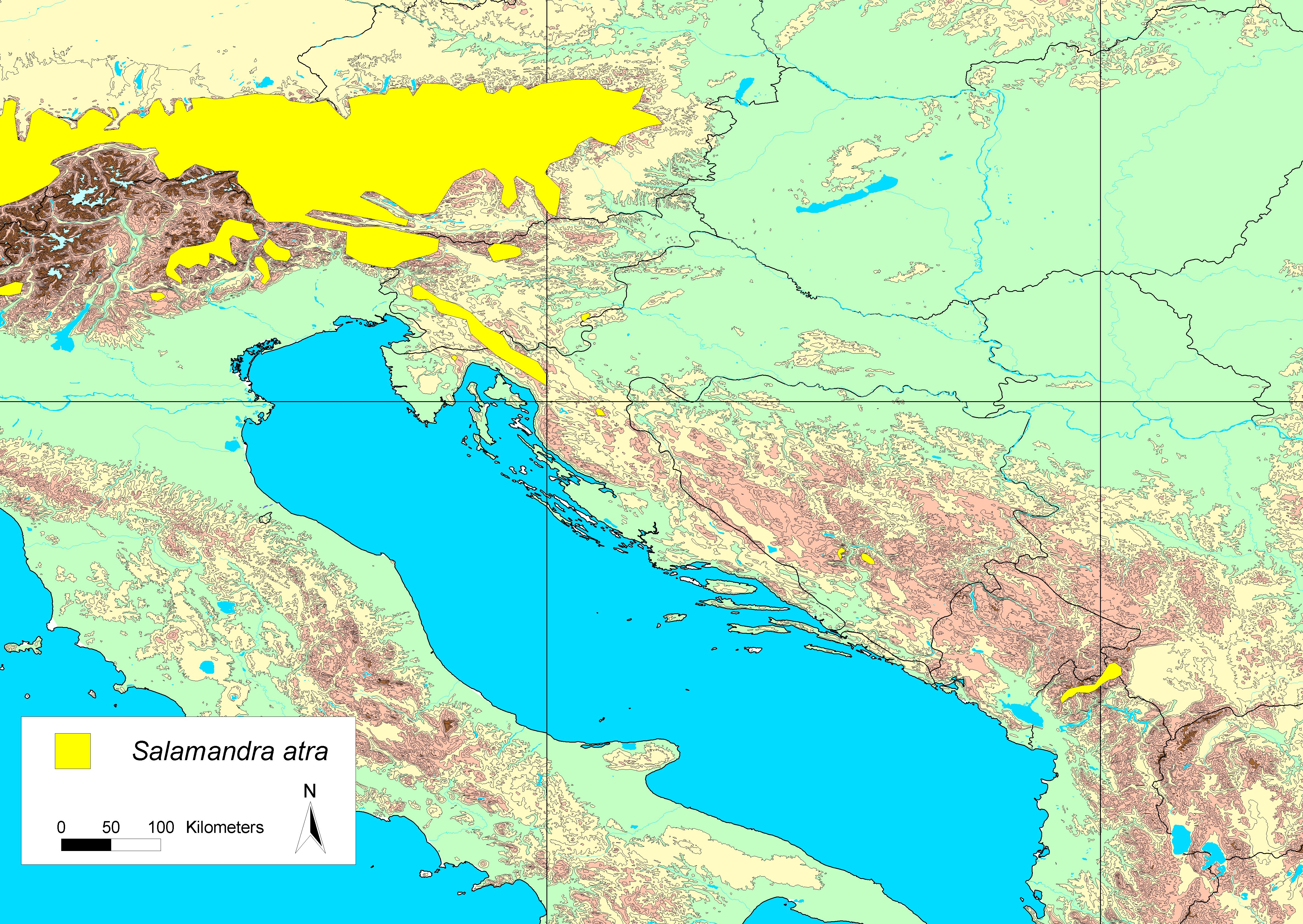 Salamandra atra distribution redrawn after Bonato et al 2018